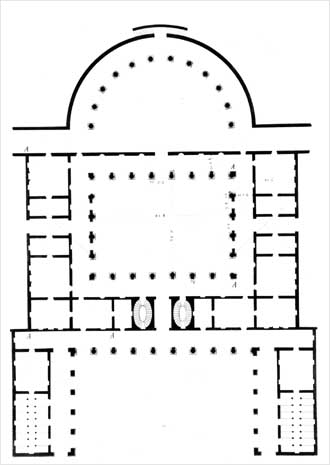 Villa Serego, Santa Sofia di Pedemonte in San Pietro in Cariano, Province of Verona. Drawing by Ottavio Bertotti Scamozzi, 1781.